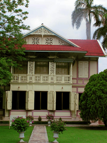 The mansion of H.M. Queen Sri Savarindira within Bang Pa-In Palace, Ayutthaya, Thailand